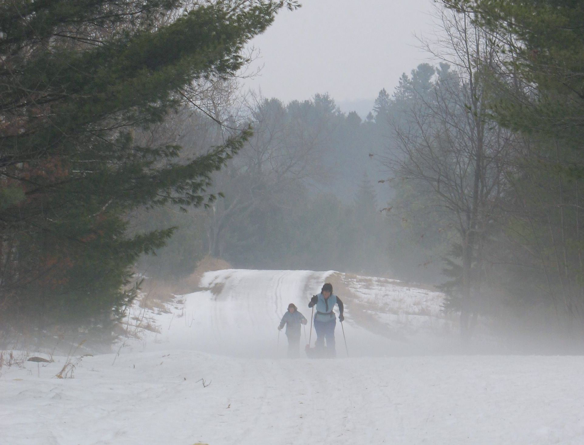 Fog from melting snow, Gatineau Park, Quebec.